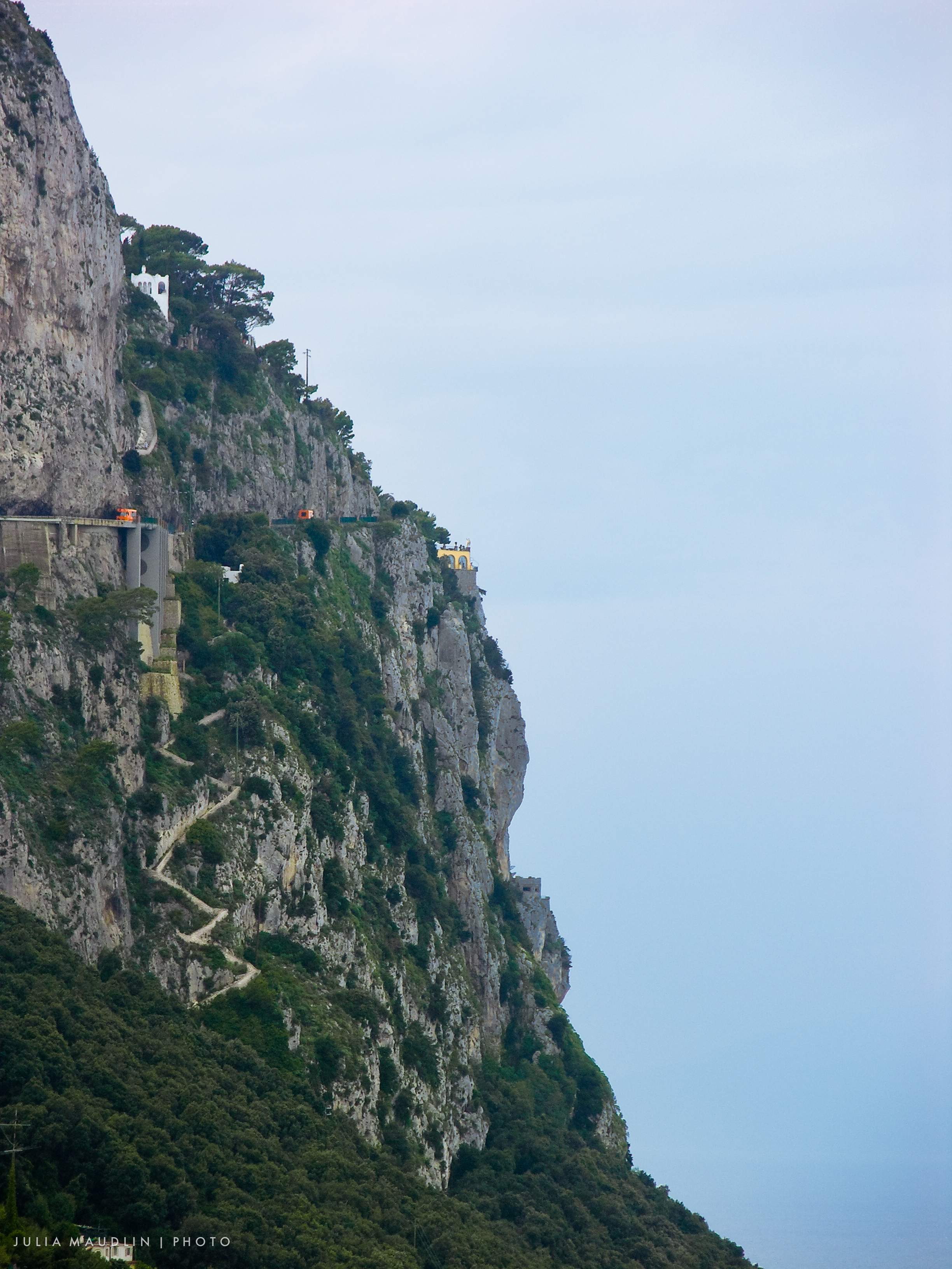 Scala Fenicia